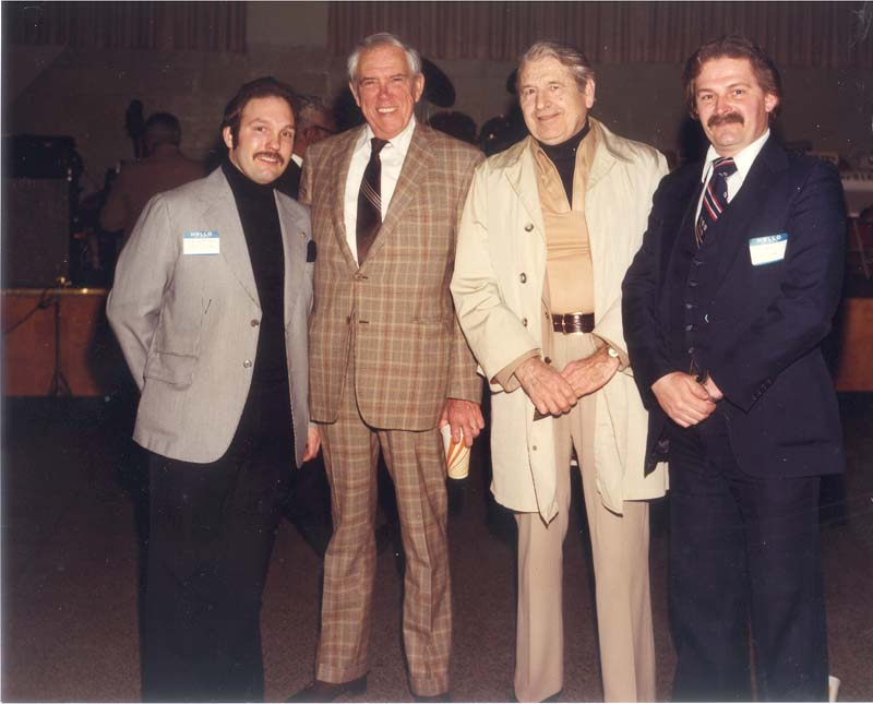 Doug Fraser, along with Andy Kranson (second from right), past UAW Local 7 President (Detroit Jefferson Plant), at the Marc Stepp Awards, Local 212. Photo dated 1982, specific month/day unknown